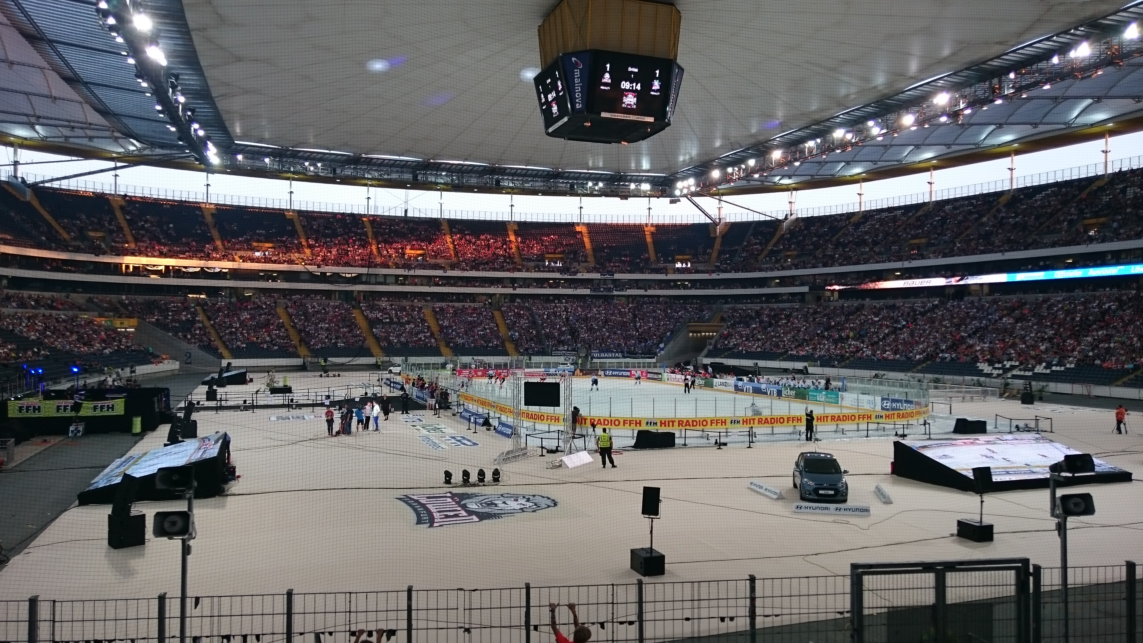 Ice Hockey Summer Game 2016 betweeen Löwen Frankfurt and Kassel Huskies in the Commerzbank-Arena in Frankfurt, Germany